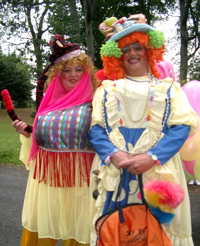 Enjoying the Fun at Aberdare Carnival, held annually at the end of August in Aberdare, South Wales, UK. The Carnival Parade travels from Aberdare Town to Aberdare Park.